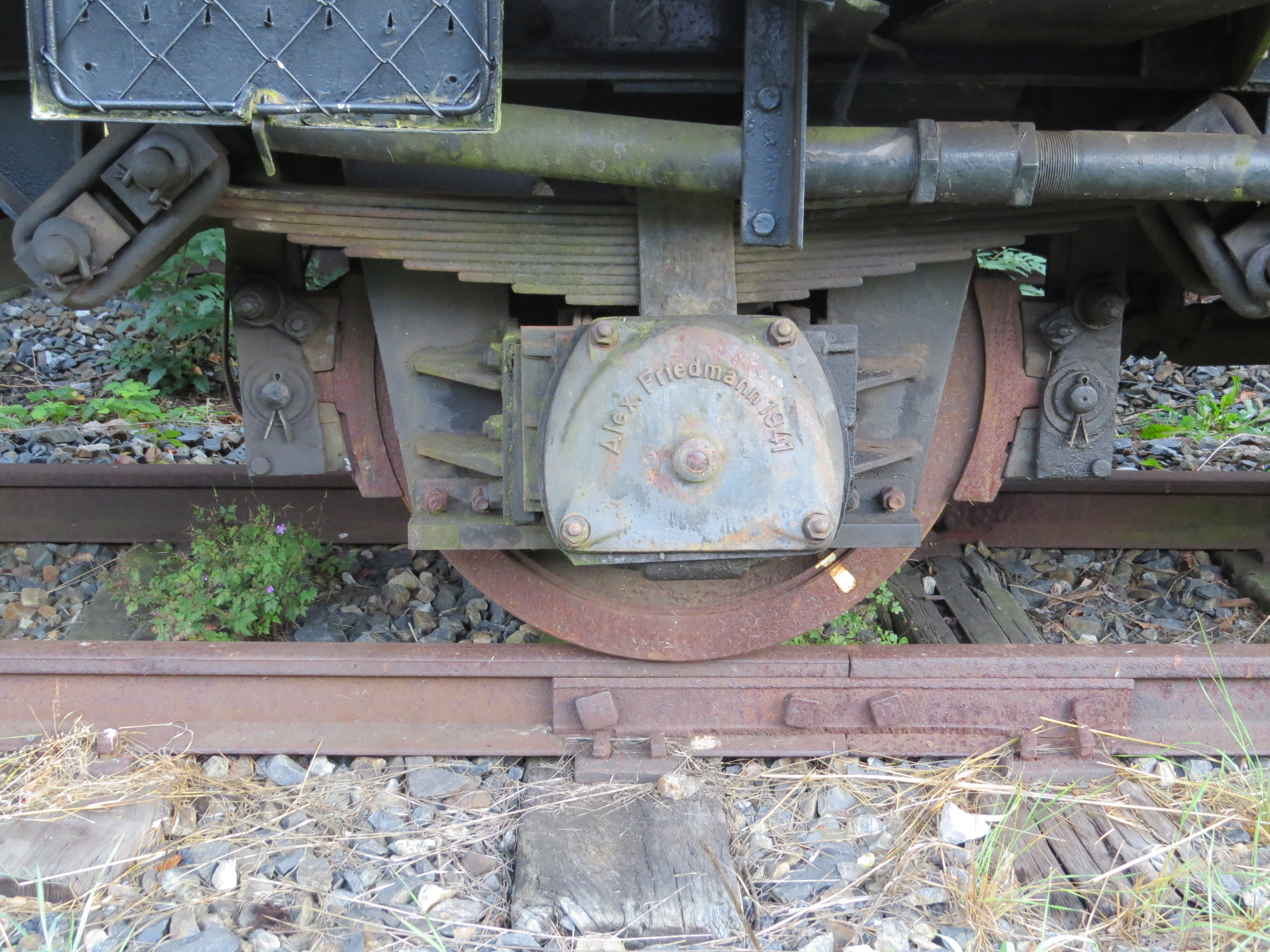 Alex. Friedmann narrow gauge wagon bearing at Bahnhof Kienberg-Gaming